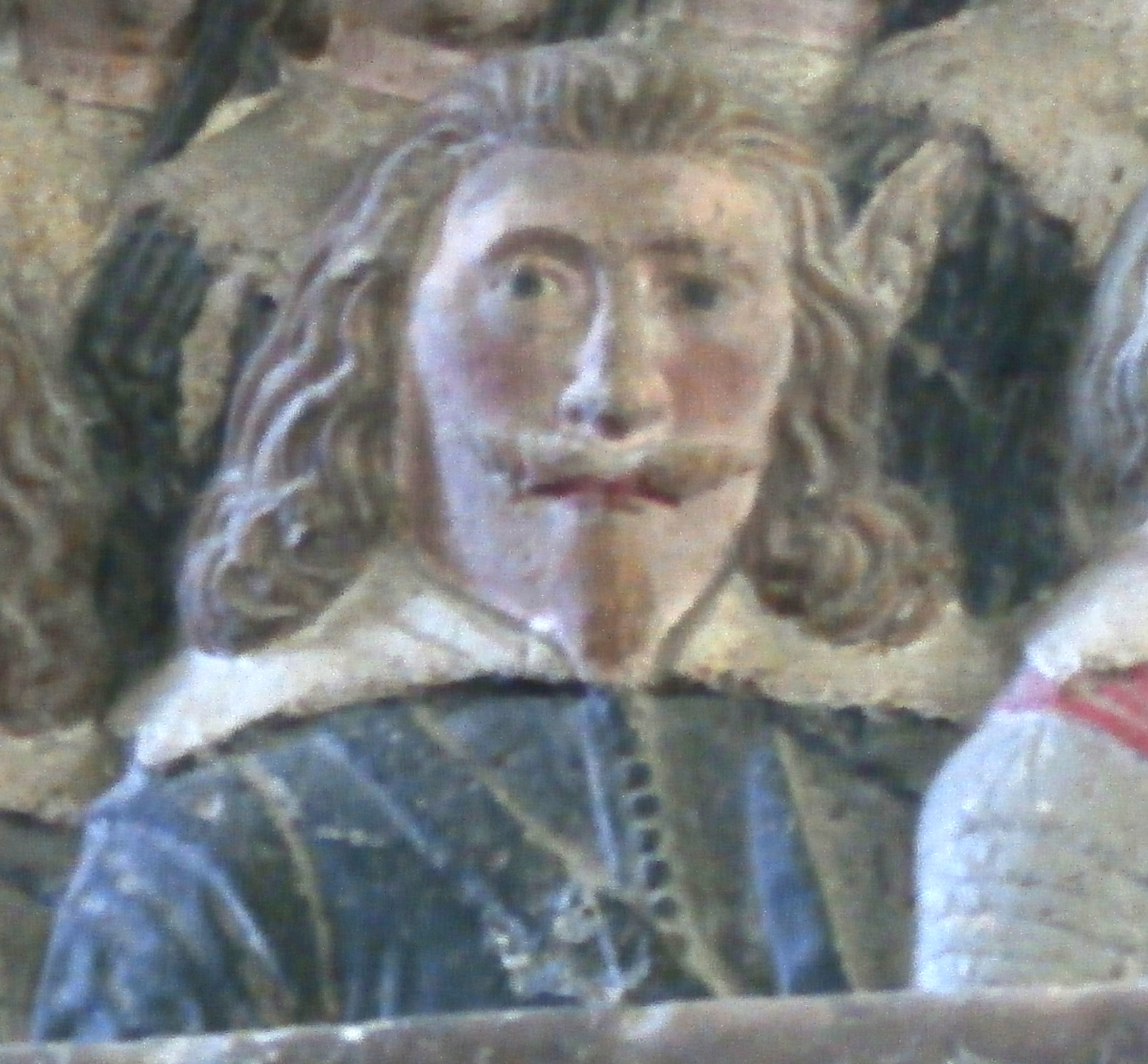 Relief sculpture of William Strode _(1594-1645), MP and one of the Five Members whose arrest was sought by King Charles I before the start of the Civil War, detail from mural monument of his father Sir William Strode (d.1637) of Newnham, Plympton St Mary, north wall of north aisle, St Mary's Church, Plympton